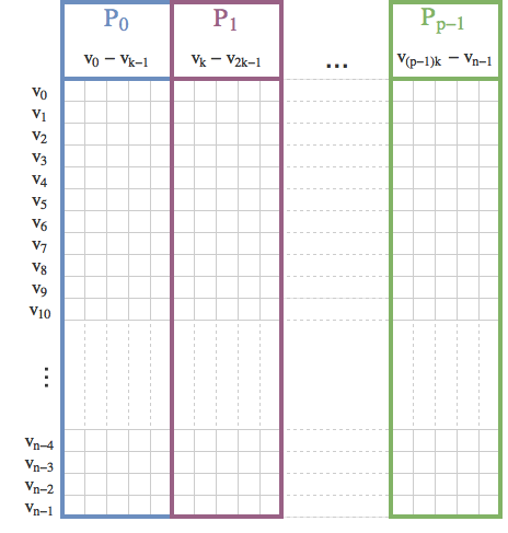 Distributed adjacency matrix as used by parallel version of the Prim algorithm.